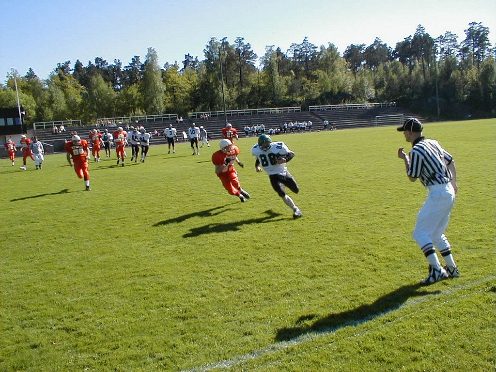 Norwegian am.football team Arendal Wildcats in a game